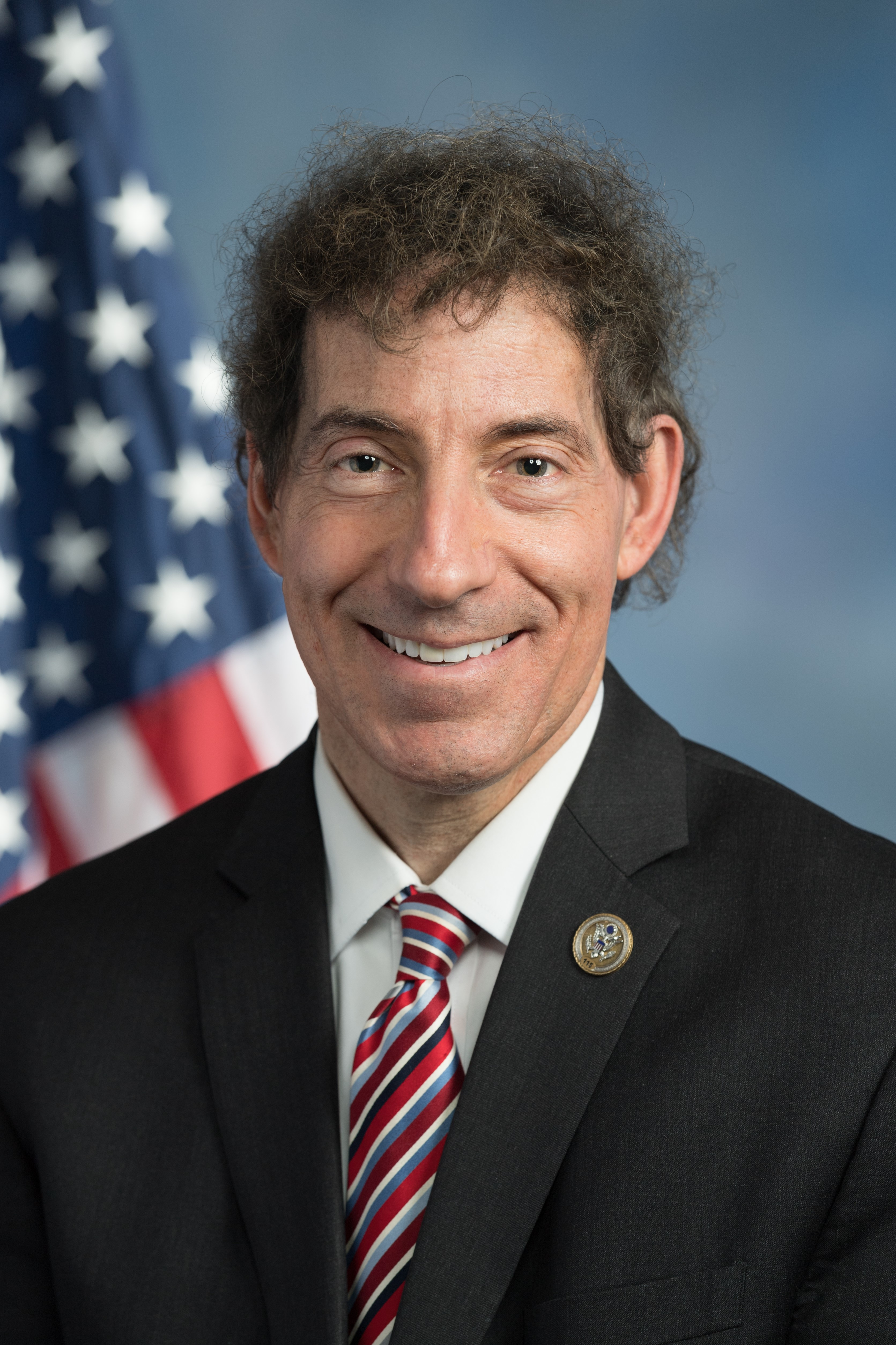 U.S. Rep. Jamie Raskin (D-MD)